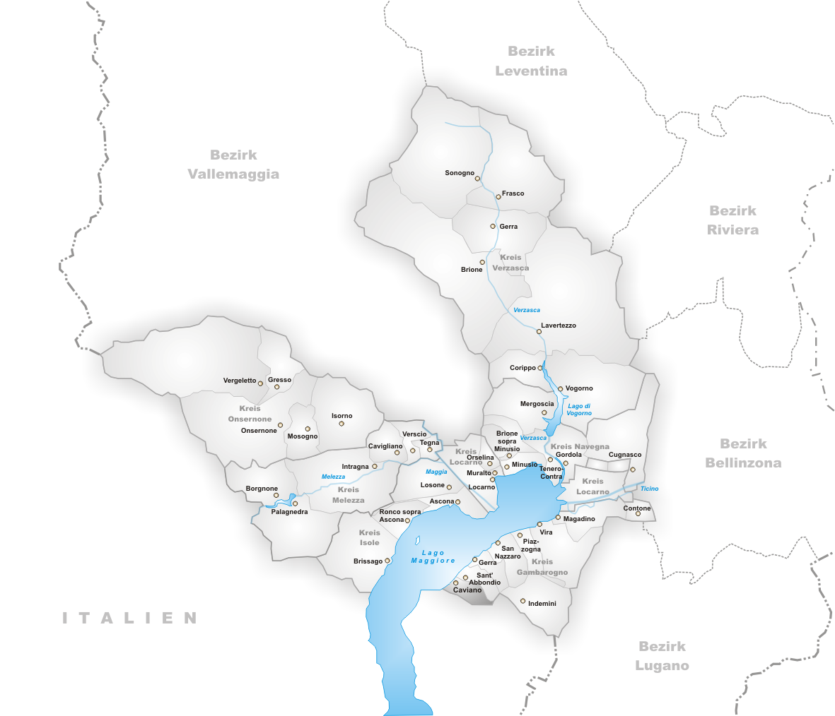 Municipality Caviano